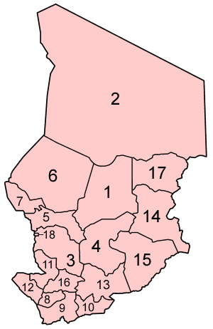 Map of the regions of Chad, numbered in English/French alphabetical order. (English = French except N'Djamena, which has a separate status, is numbered last. In French, it would be "Ville de N'Djamena", and last alphabetically.) This is the result of several days of research and staring at tiny maps, so it could still be incorrect, particularly in the southern quarter of the country. If you see any mistakes, PLEASE tell me. 14 prefectures of Chad : Batha Biltine Borkou-Ennedi-Tibesti Chari-Baguirmi Guéra Kanem Lac Logone Occidental Logone Oriental Mayo-Kebbi Moyen-Chari Ouaddaï Salamat Tandjilé